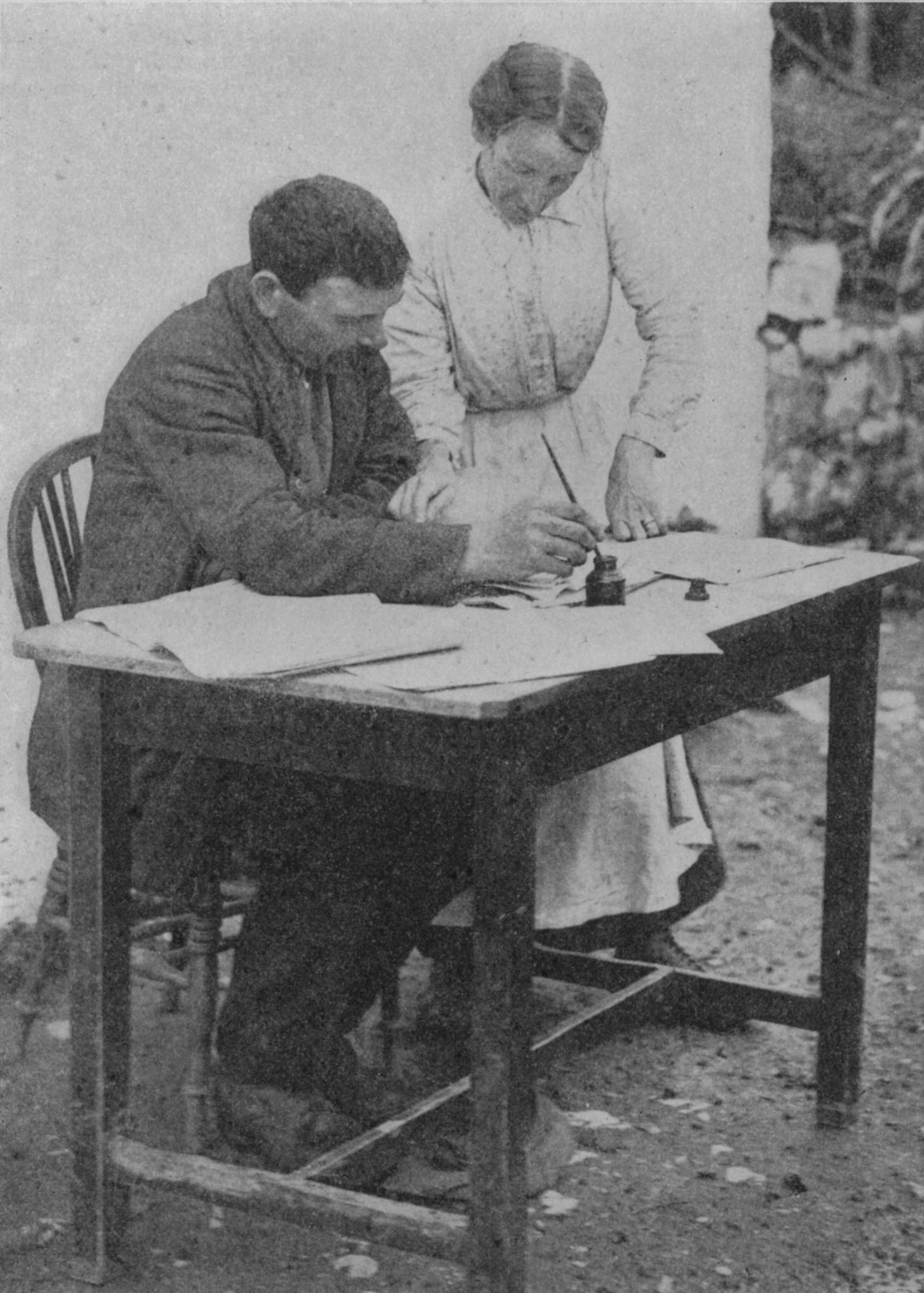 Posed photo of IRA officer Thomas Hand of Baltrasna, Skerries, County Dublin, in 1920. It shows him presiding over a Republican arbitration court, assisted by his wife. This photograph was syndicated in the United States by the Chicago Tribune Foreign News Service.